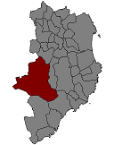 Location of Cruïlles, Monells i Sant Sadurní de l'Heura in Baix Empordà